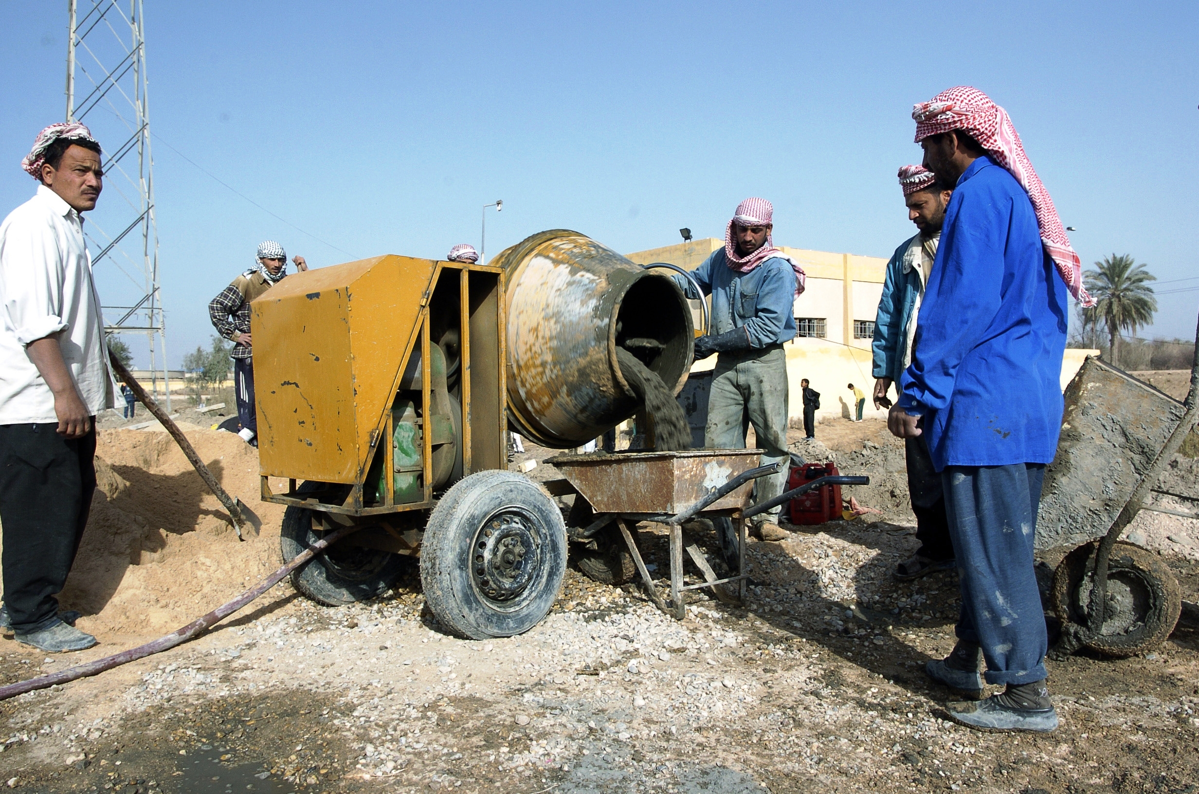 Local Iraqi workers mix concrete to be used for the housing of an irrigation system Feb. 5, 2007, in Al Hamzah, Iraq.